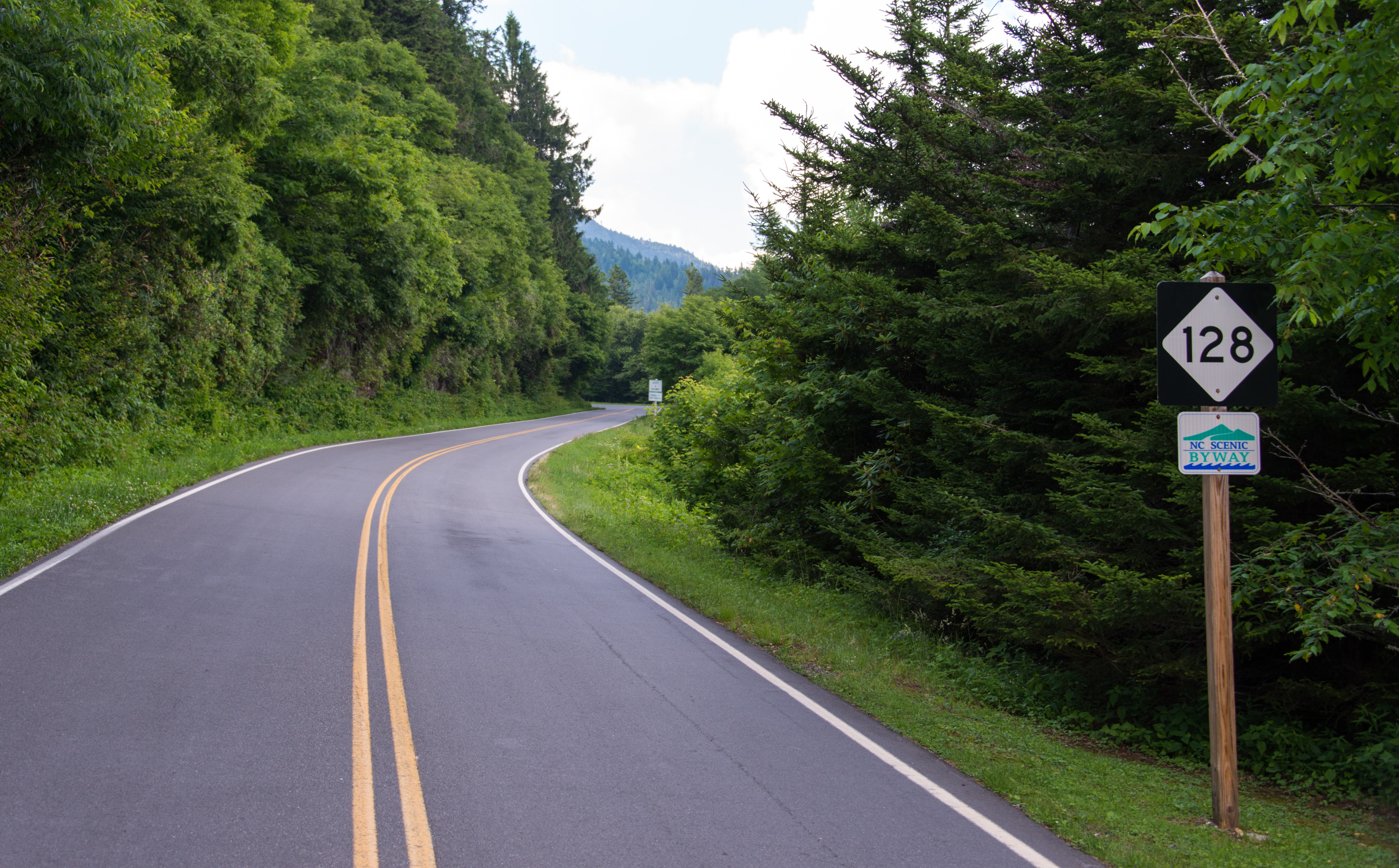 Signage has been replaced since last visit, now sporting a North Carolina Byways sign along with North Carolina Highway 128 (northbound).